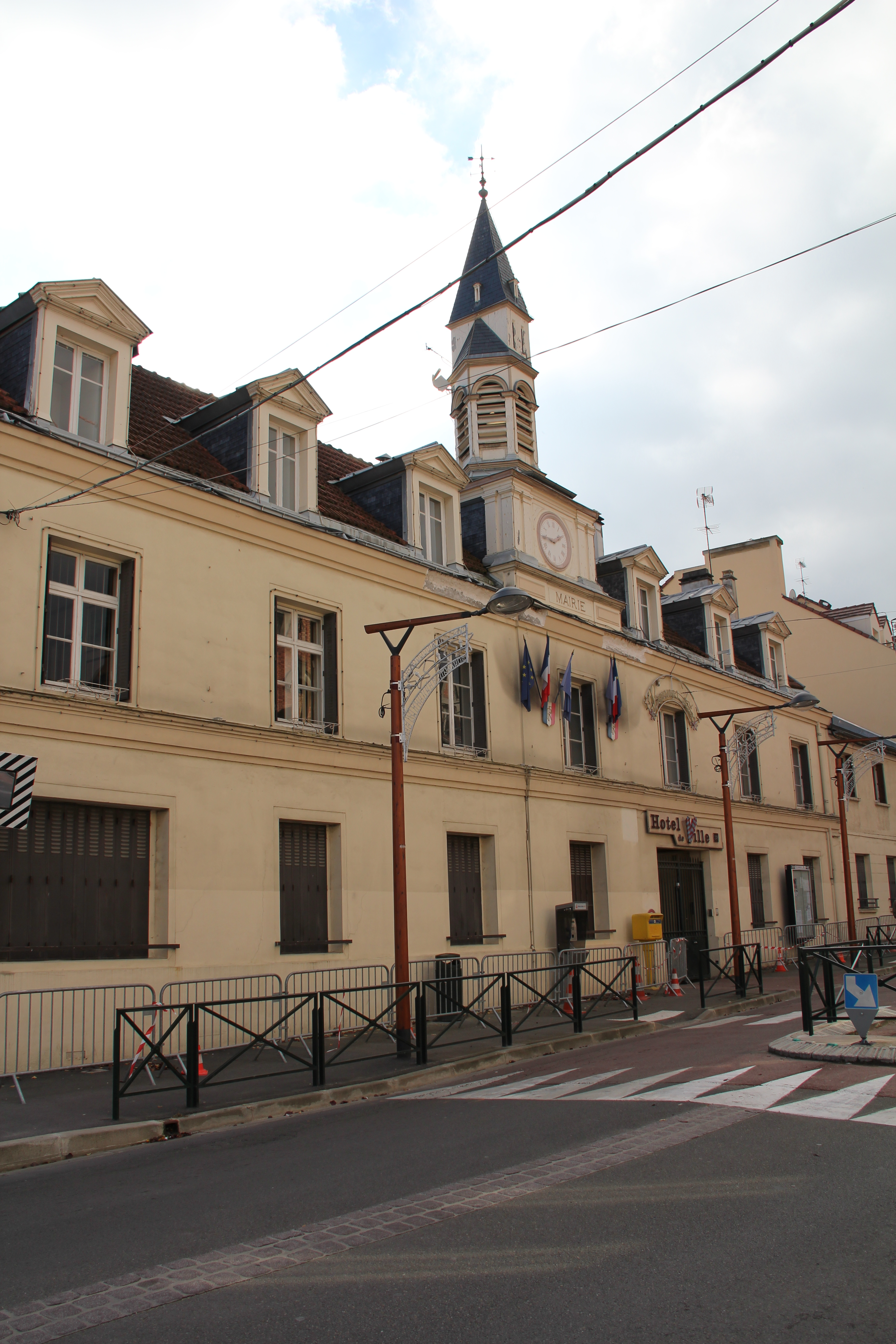 The town hall of Villeparisis, Seine-et-Marne, France.